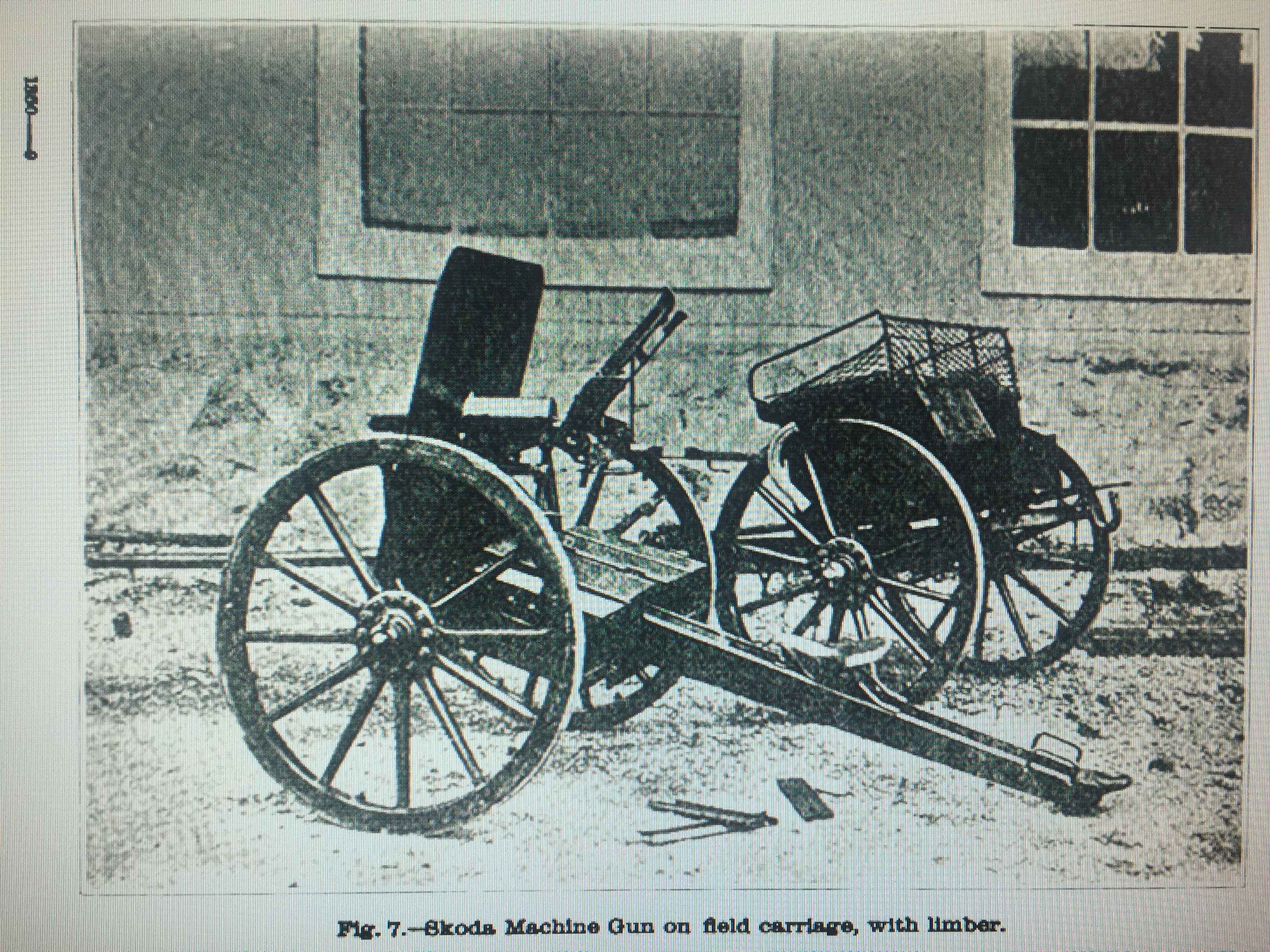 This photograph shows the Salvator Dormus 1893 Machine gun in it's optimum configuration before changes made in 1902 with the new model. This gun on a landing carriage and shield like this was most likely the configuration used by the Austro-Hungarian bluejackets (sailors) from the Cruiser Zenta during the defense of siege of the Peking Legations in 1900 during the Boxer Rebellion. Note the chargers for the top mounted fixed magazine on the top and ammunition boxes on the carriage which was typical of naval machine gun landing carriages of the pre-WWI era.